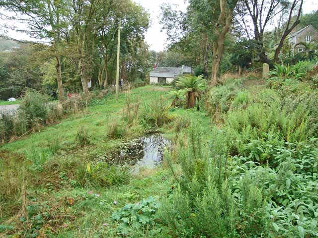 The Millennium Garden at Lamorna